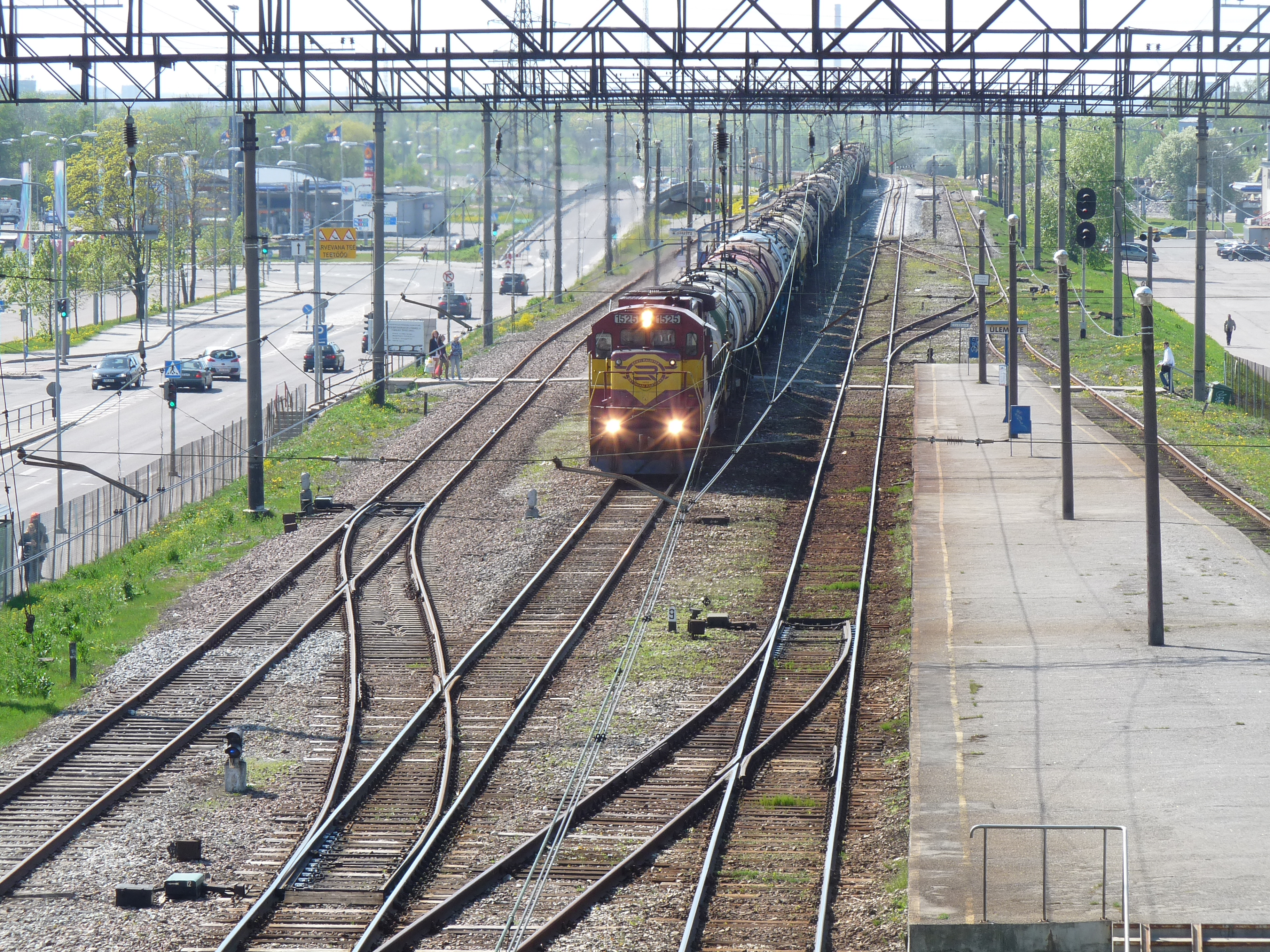 Train in Ülemiste, Tallinn